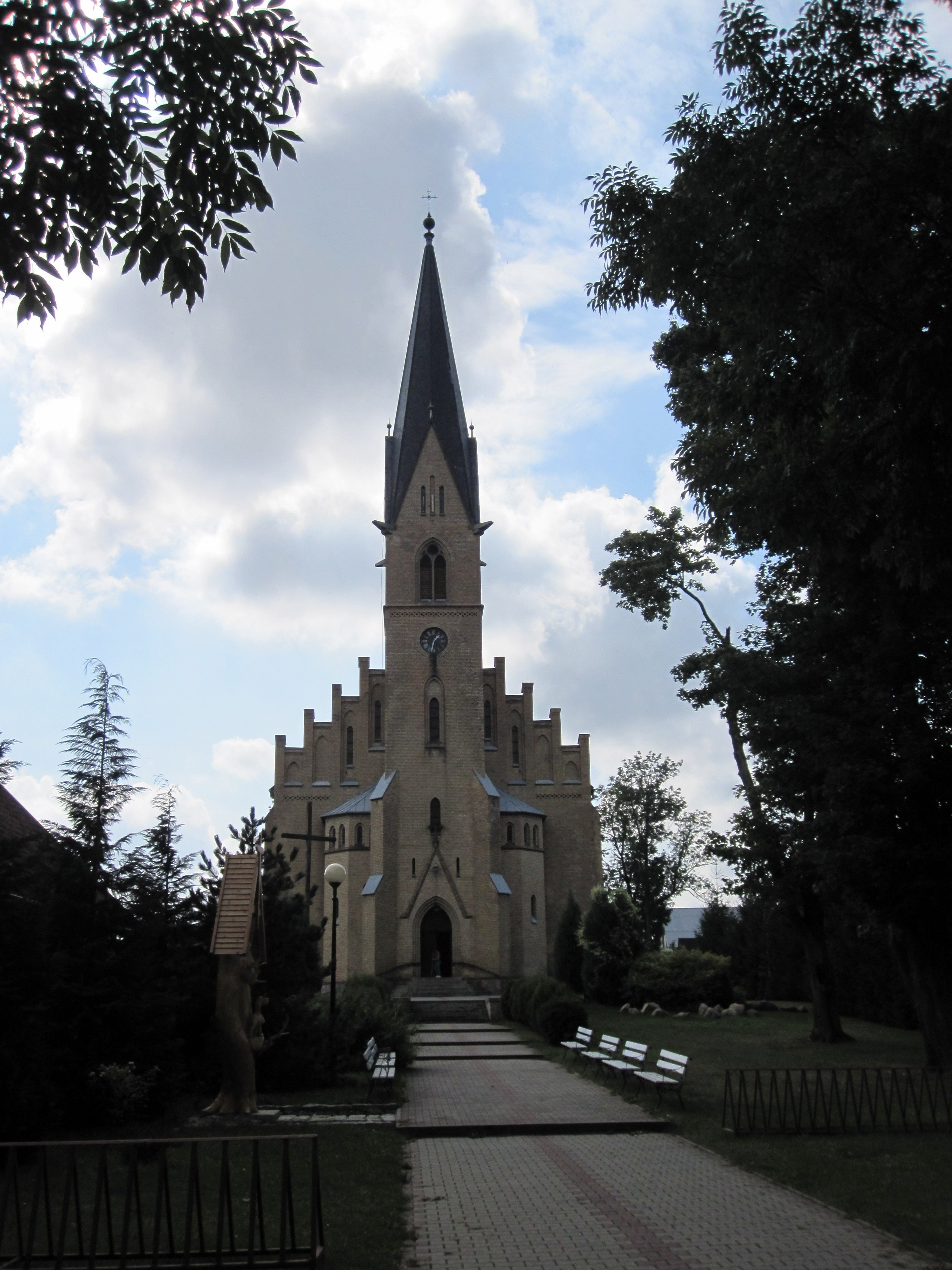 Mary Magdalene church in Rozogi